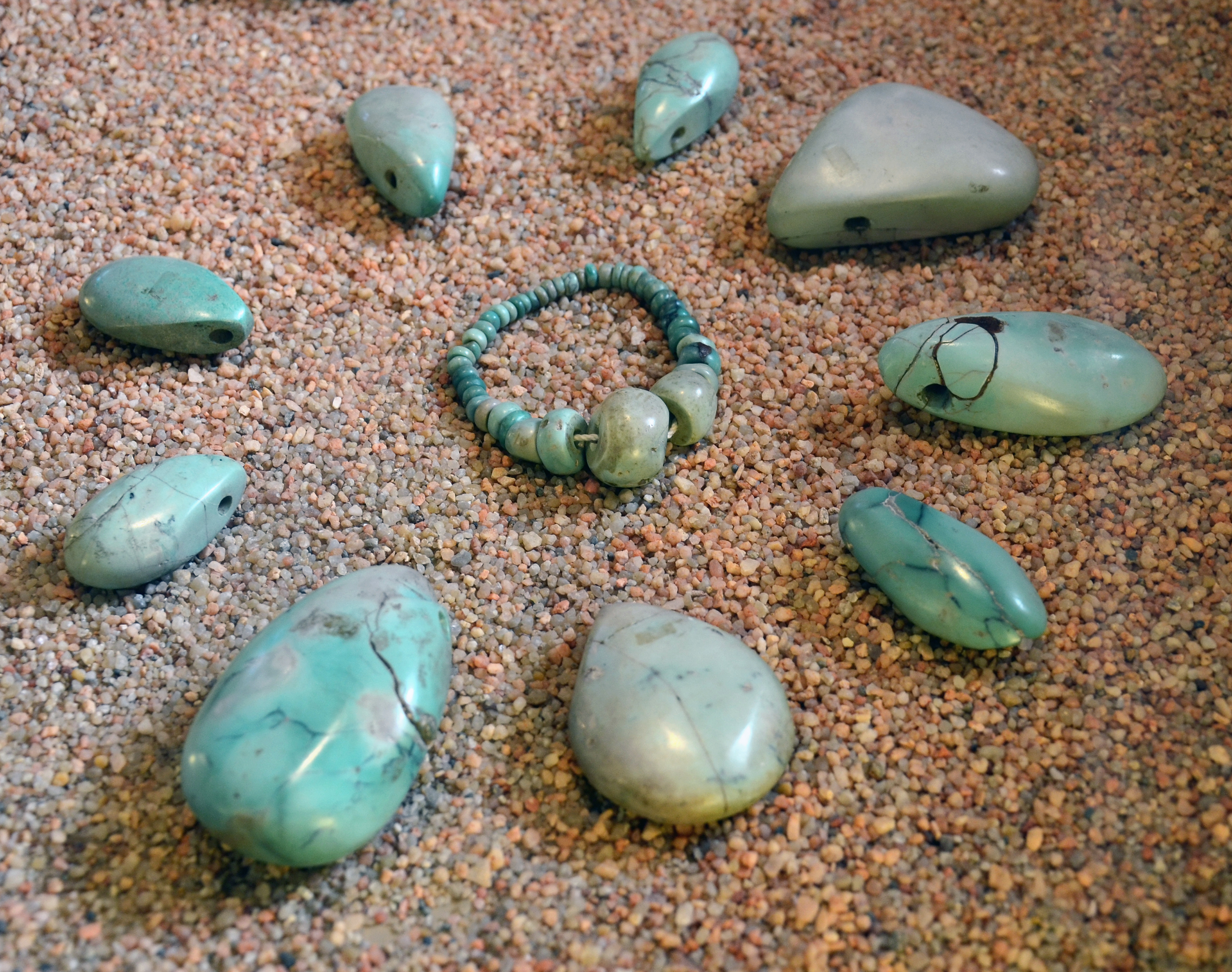 Neolithic jewellery, Musée d'histoire et d'archéologie de Vannes